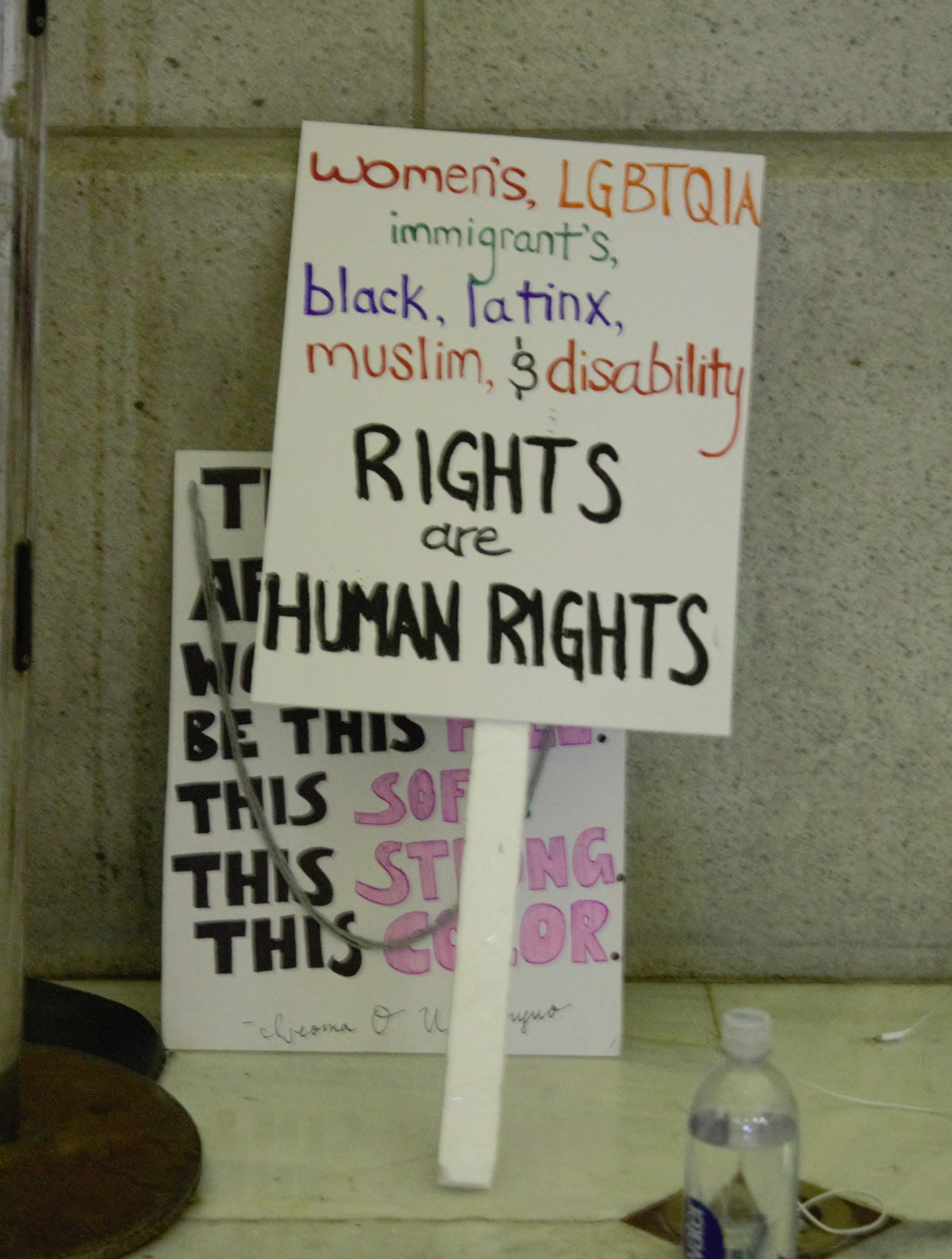 Women's March demonstrators arriving at Union Station in NE Washington DC on Saturday morning, 21 January 2017 by Elvert Barnes Photography PROTEST SIGNS @ J21 WOMEN'S MARCH 2017 Project Follow Women's March at BEFORE J21 WOMEN'S MARCH 2017 Project: Union Station Series Elvert Barnes Saturday, 21 January 2017 WOMEN'S MARCH DC docu-project at